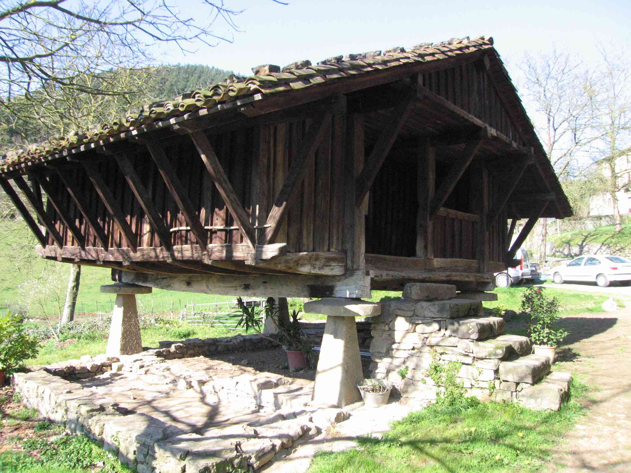 Granary of Agerre (also Agirre or Agarre) farm in Bergara (Guipuscoa, Basque Country)